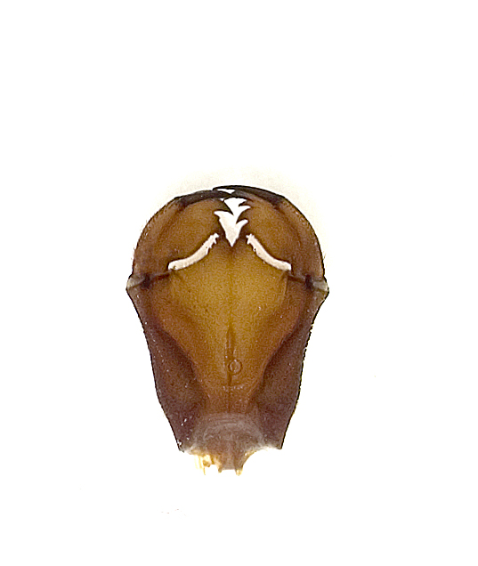 Larva of Neopetalia punctata